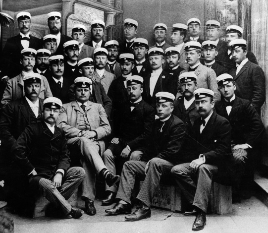 The male choir of Norrlands nation, Uppsala university, on tour in Norrland in the summer of 1892